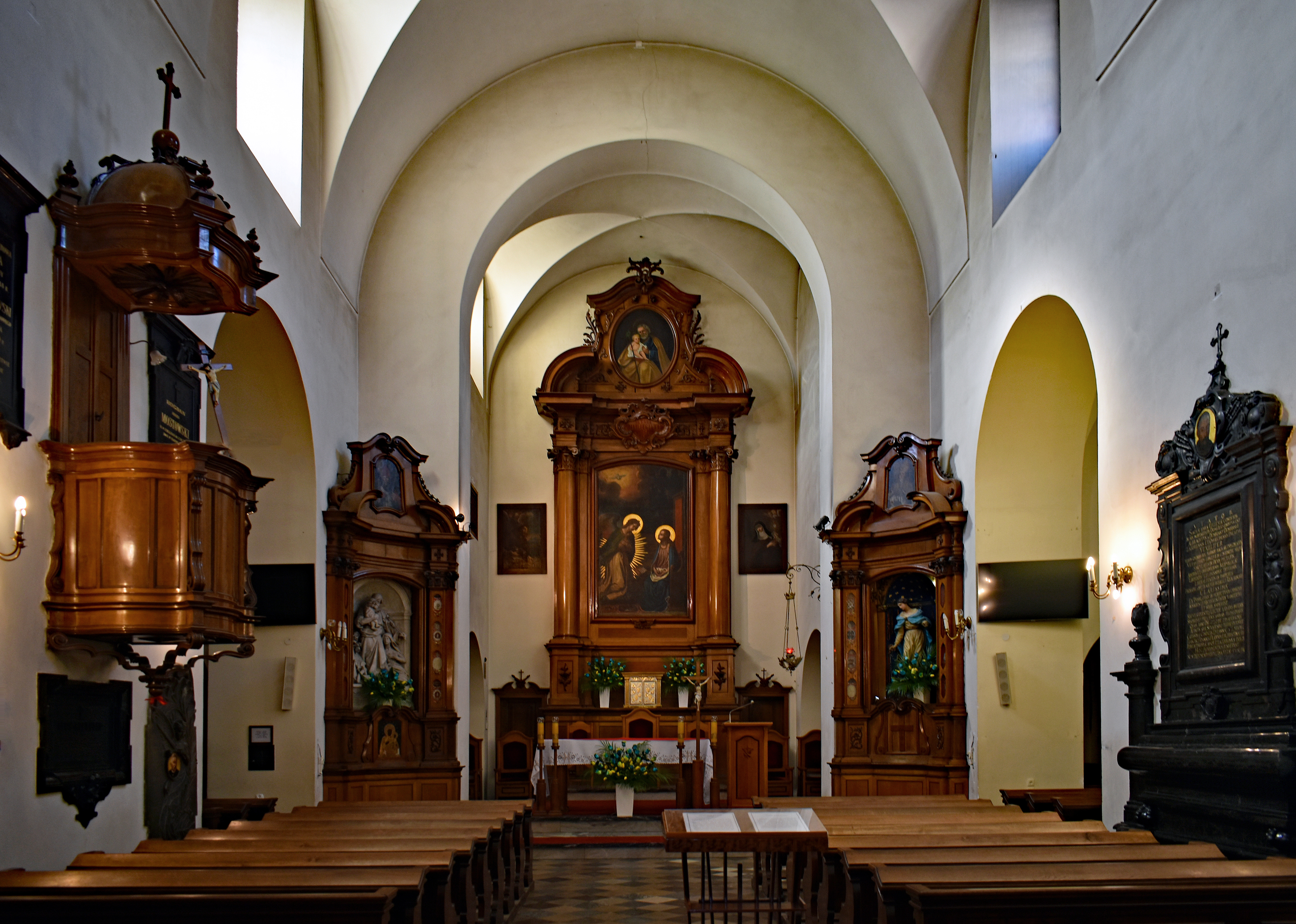 Annunciation of the Blessed Virgin Mary Church (interior), 11 Loretanska street, Piasek, Krakow, Poland